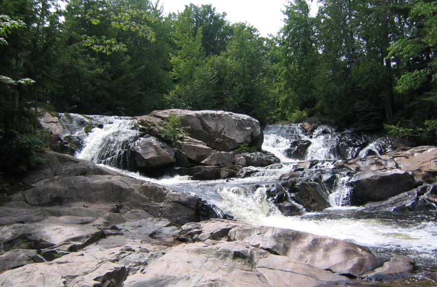 Picture of waterfalls on the Yellow Dog River in the Upper Peninsula of Michigan